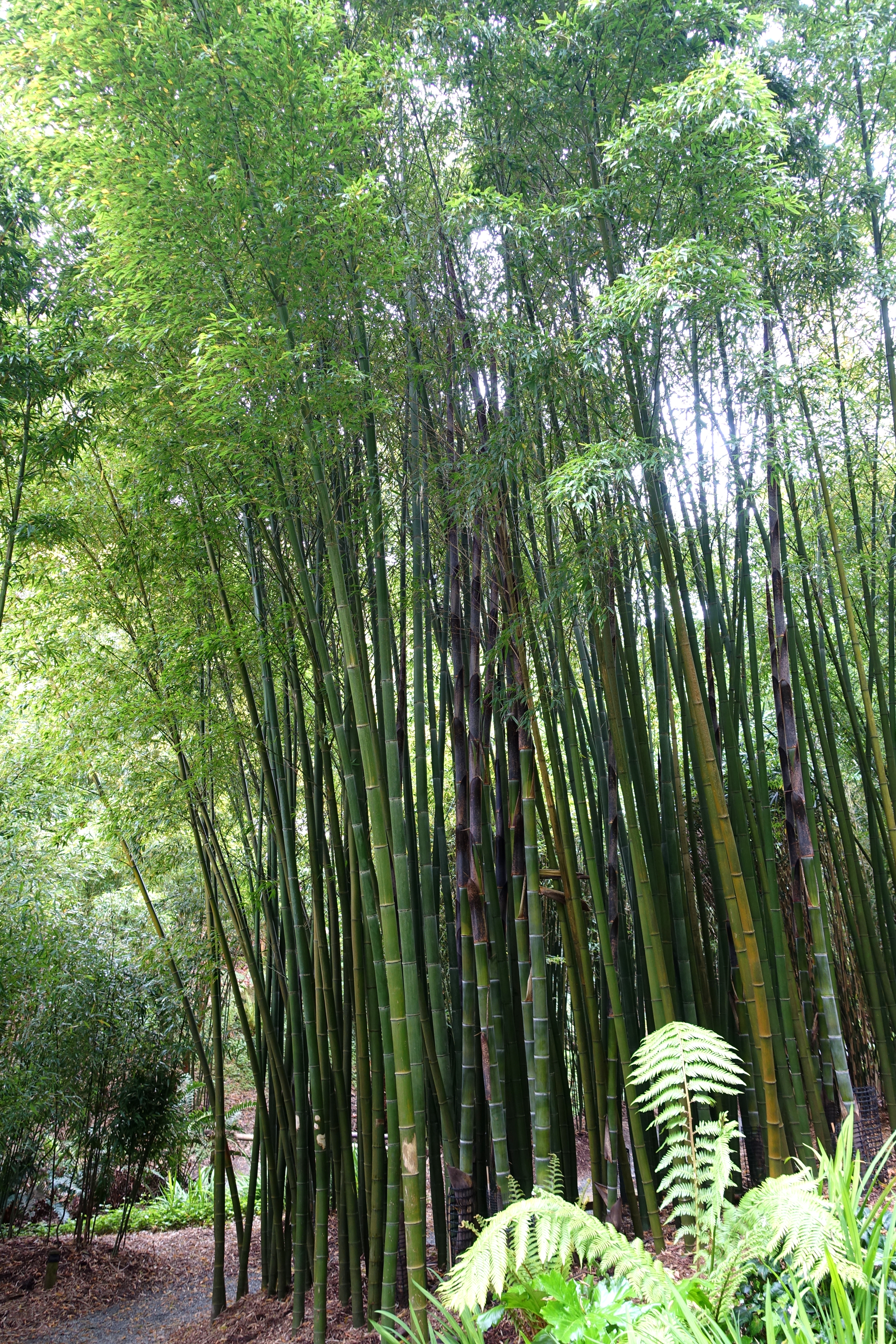 Horticultural specimen in Trebah Garden - Cornwall, England.